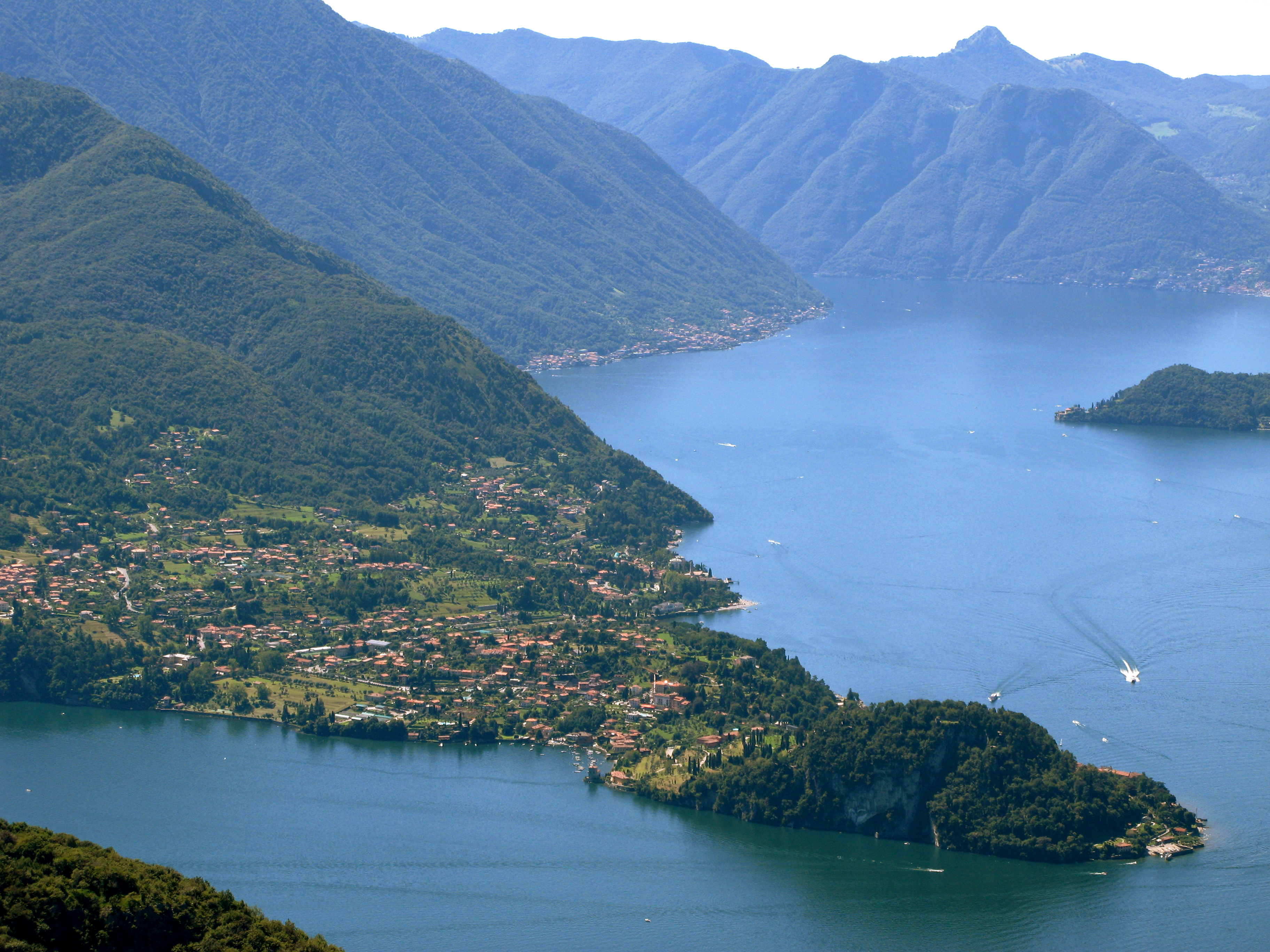 Panorama of Bellagio promontory, Lake Como, Italy, from the mountains above Varenna